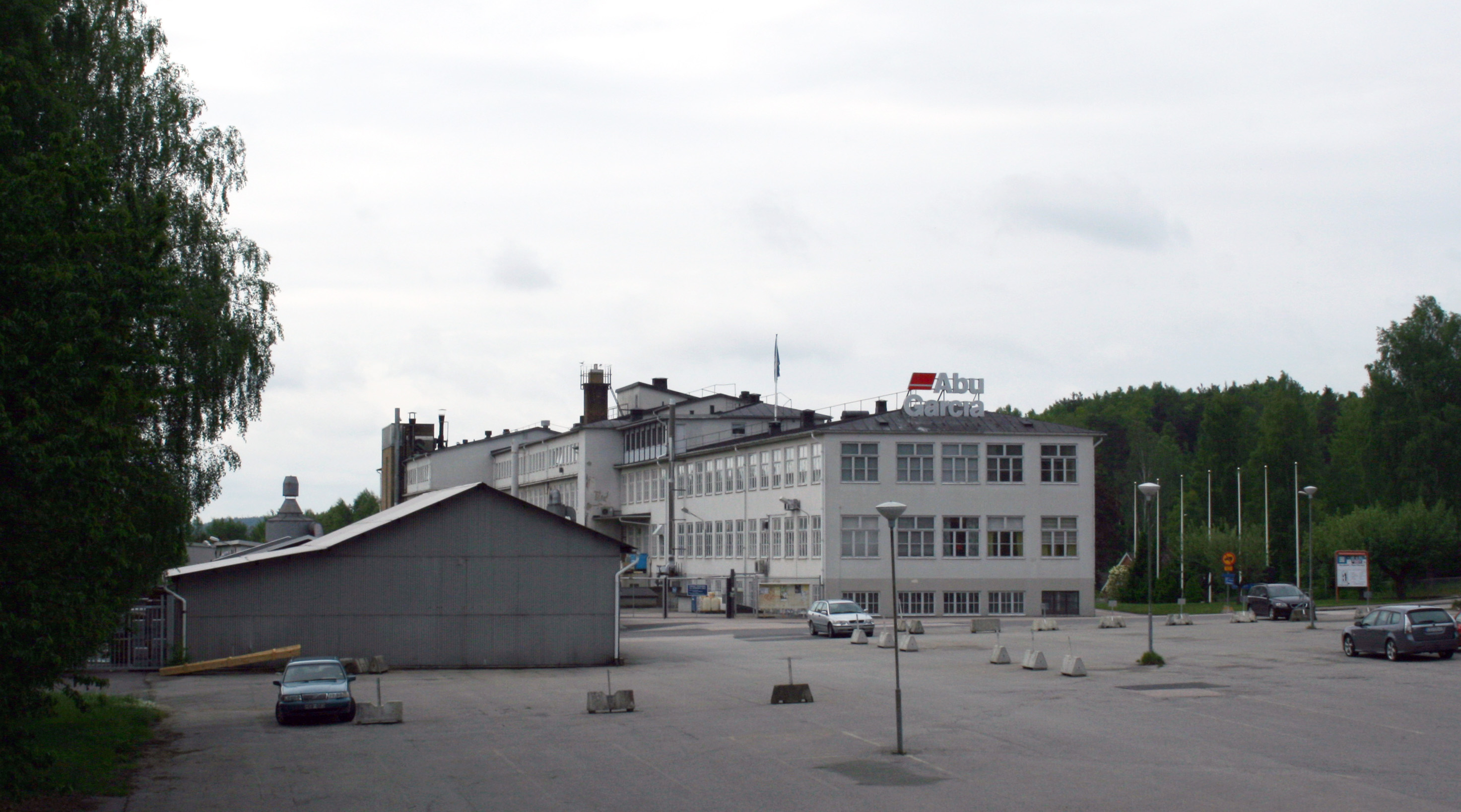 ABU-Garcia, Svängsta, Sweden